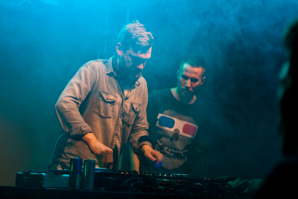 Karlssno & Winnberg, also known as Bloodshy & Avant, performing at Klubb Molto in Södertälje, Sweden. Photographer: Max Rovenko